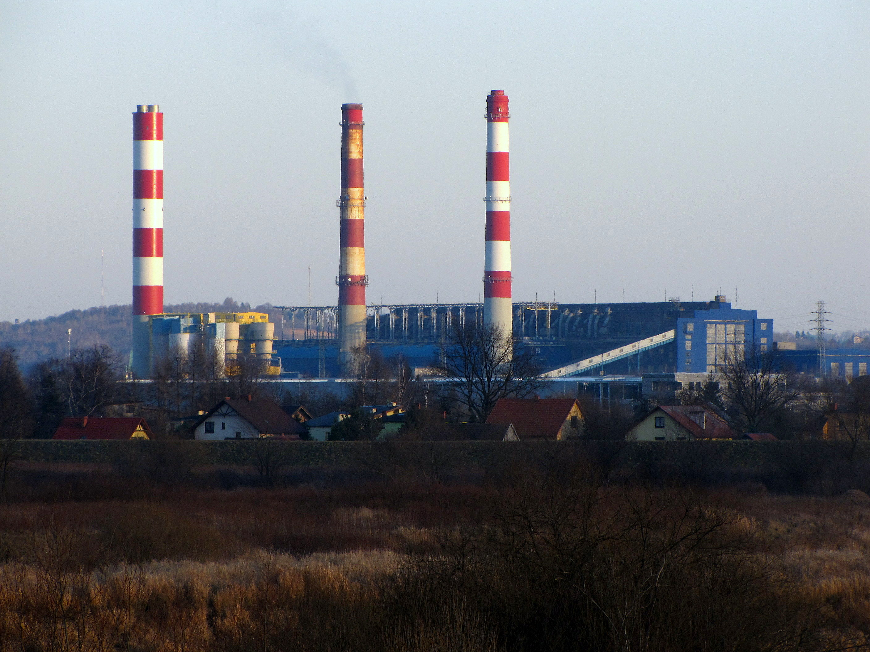 Skawina Powerplant